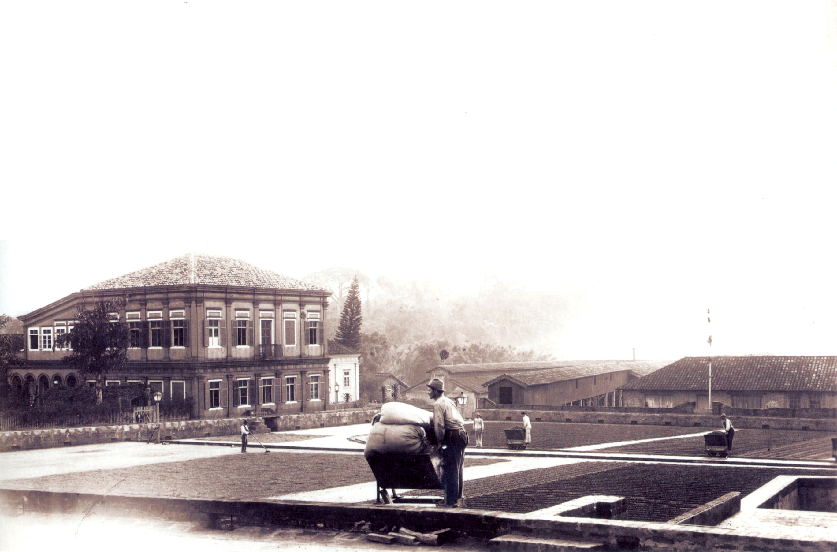 Santa Genebra farm, province of São Paulo, 1880.